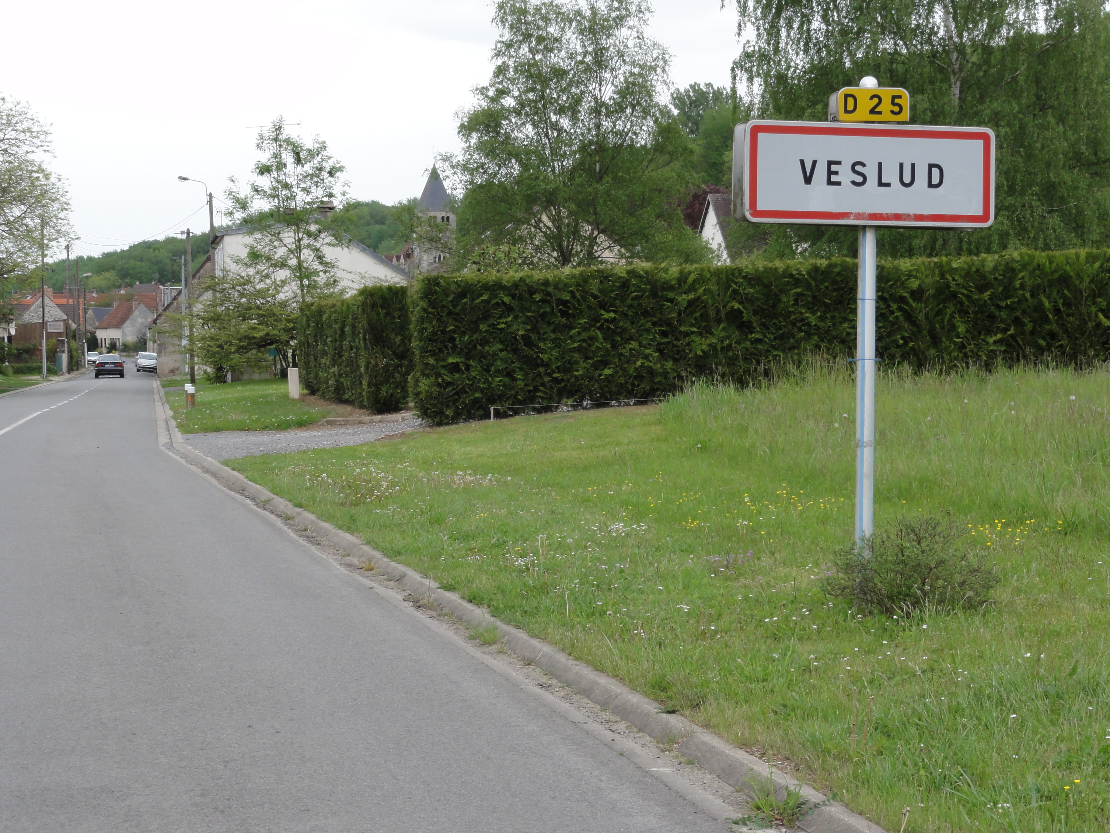 Veslud (Aisne) city limit sign